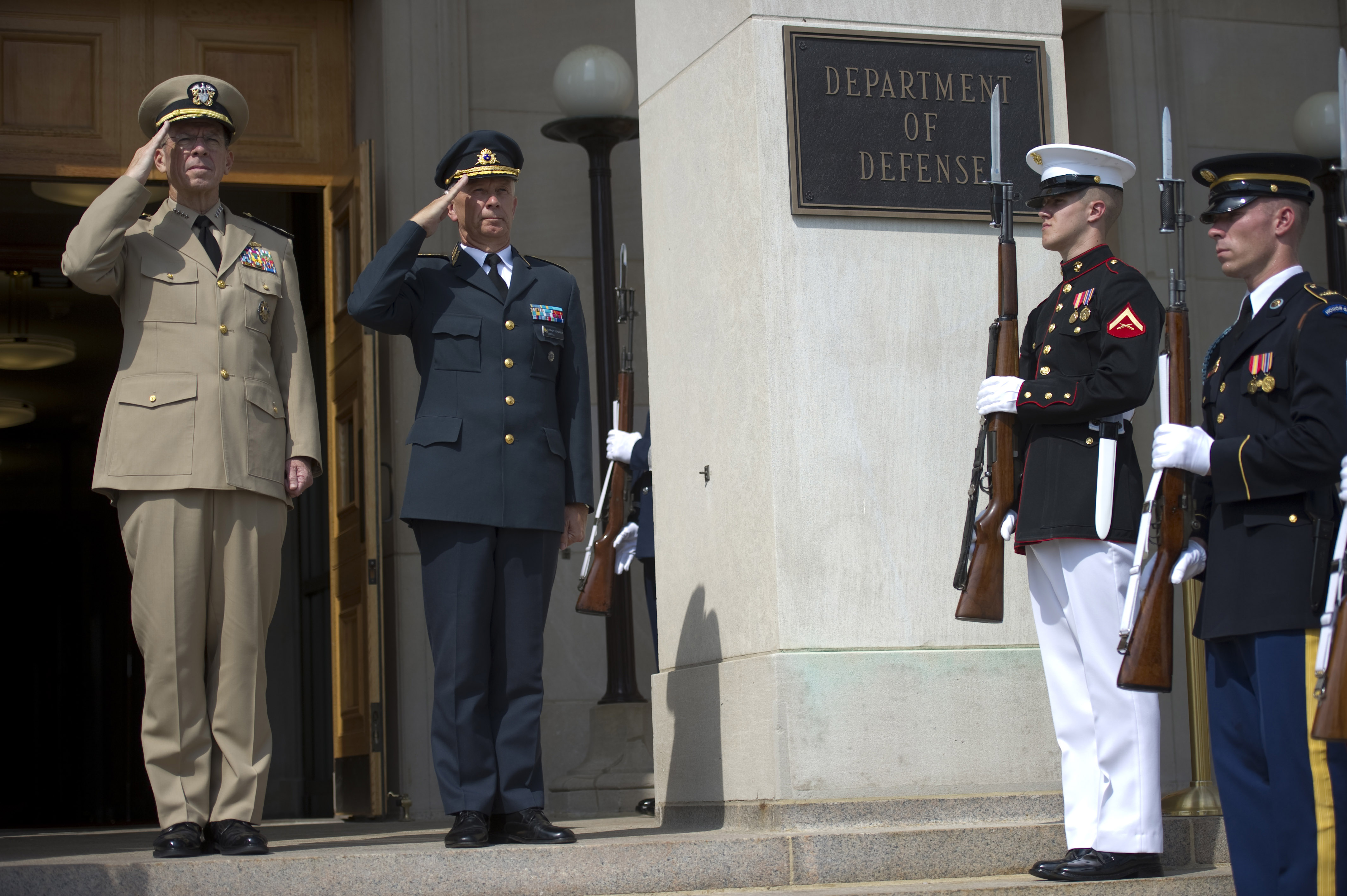 Chairman of the Joint Chiefs of Staff Adm. Mike Mullen, U.S. Navy, welcomes Supreme Commander of the Swedish Armed Forces Gen. Sverker Göranson to the Pentagon.